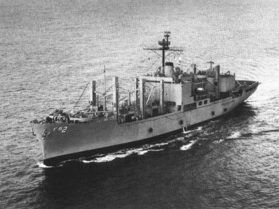 The U.S. Navy combat stores ship USS Sylvania (AFS-2) underway, circa 1970.